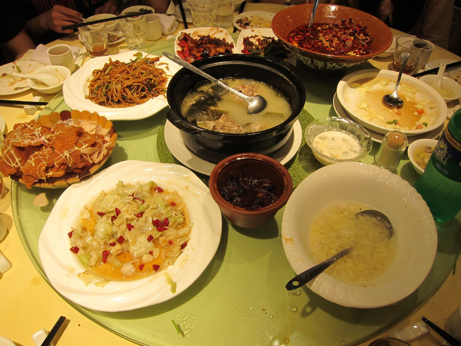 A table setting for a group in China. Serving platters and bowls are set on a large turning wheel in the center of the table, and each guest chooses how much to serve themselves.